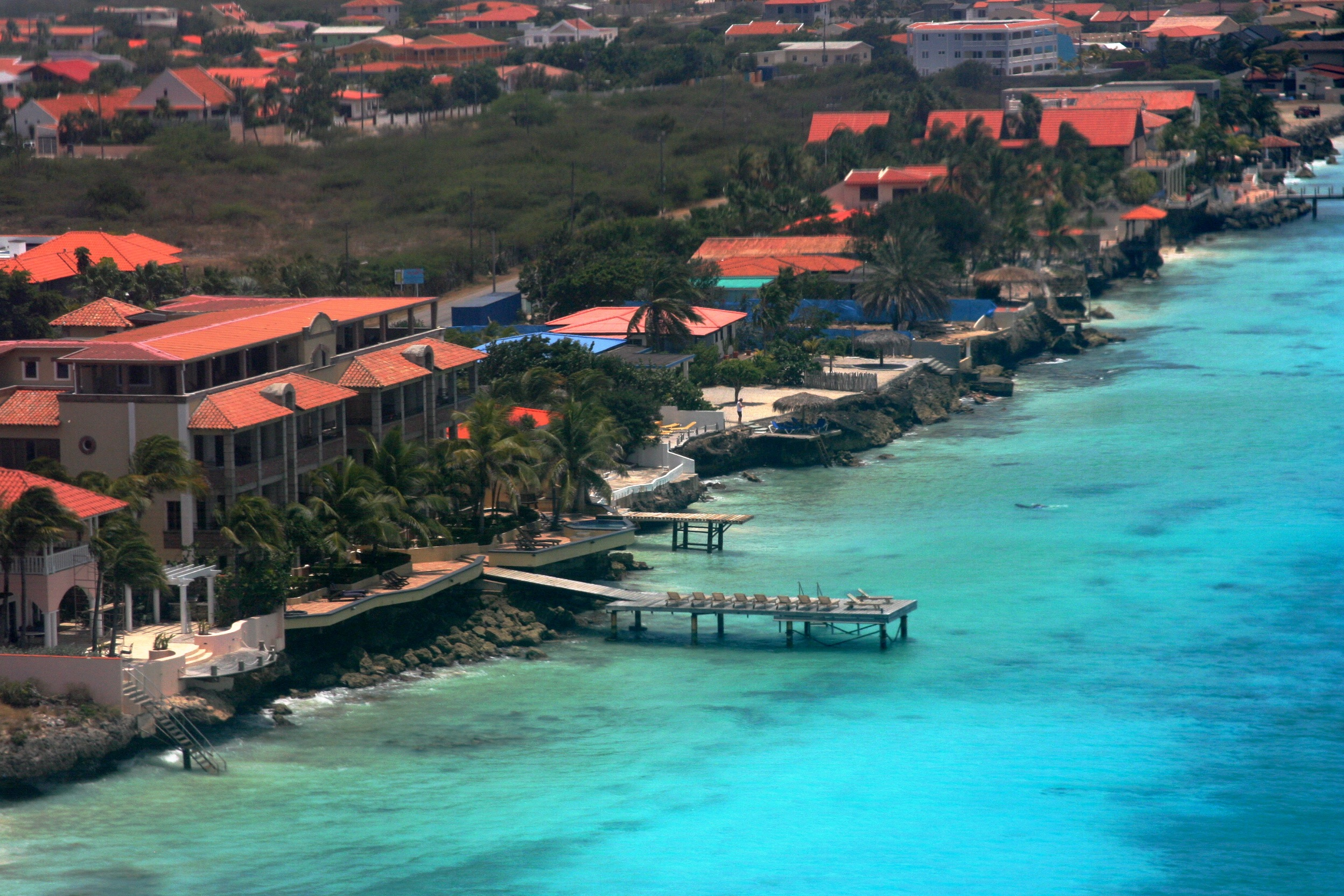 Bonaire Island, Bellafonte Luxury Oceanfront Hotel, Netherlands Antilles